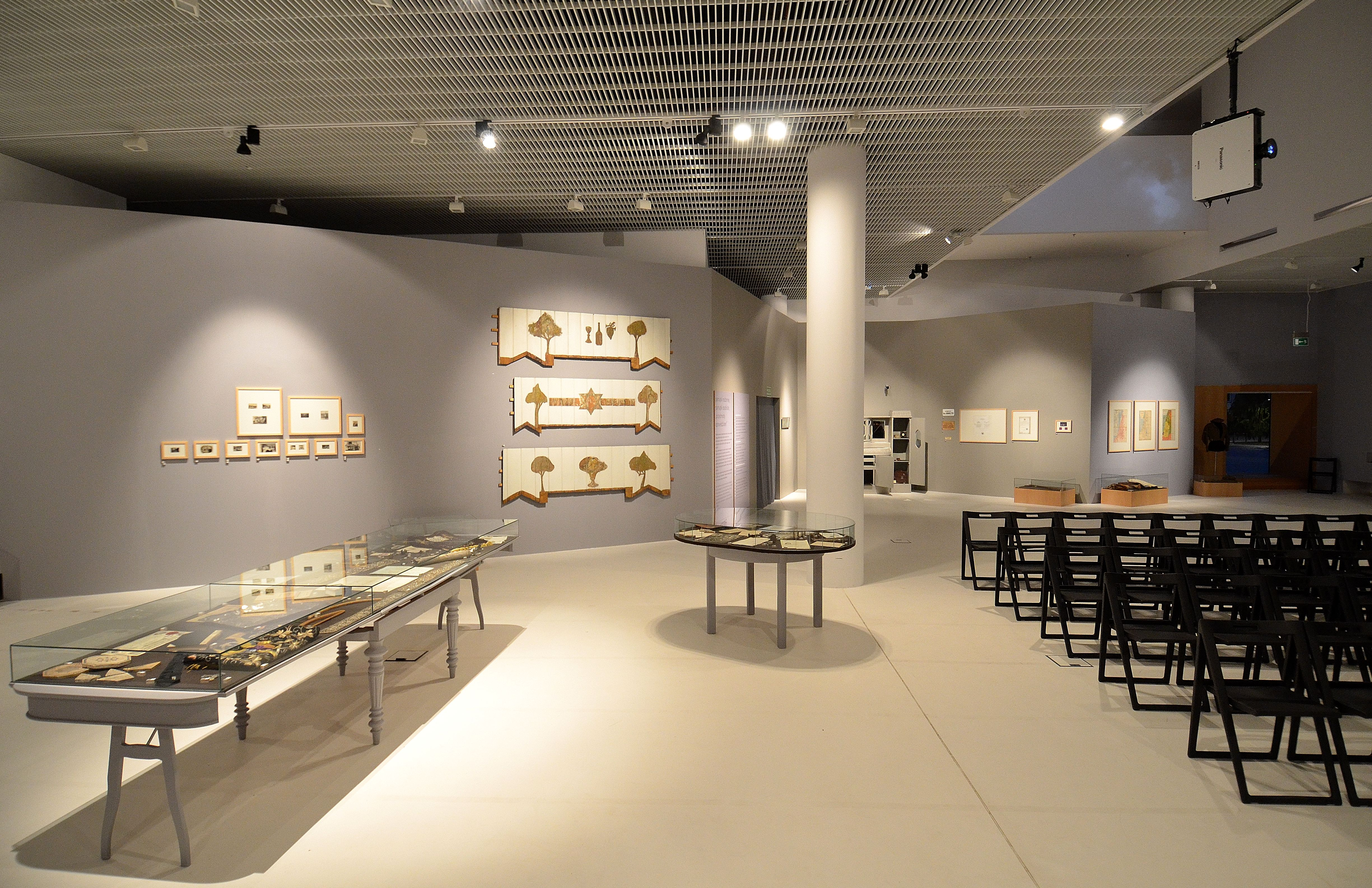 Temporary exhibition space at the Museum of the History of Polish Jews in Warsaw